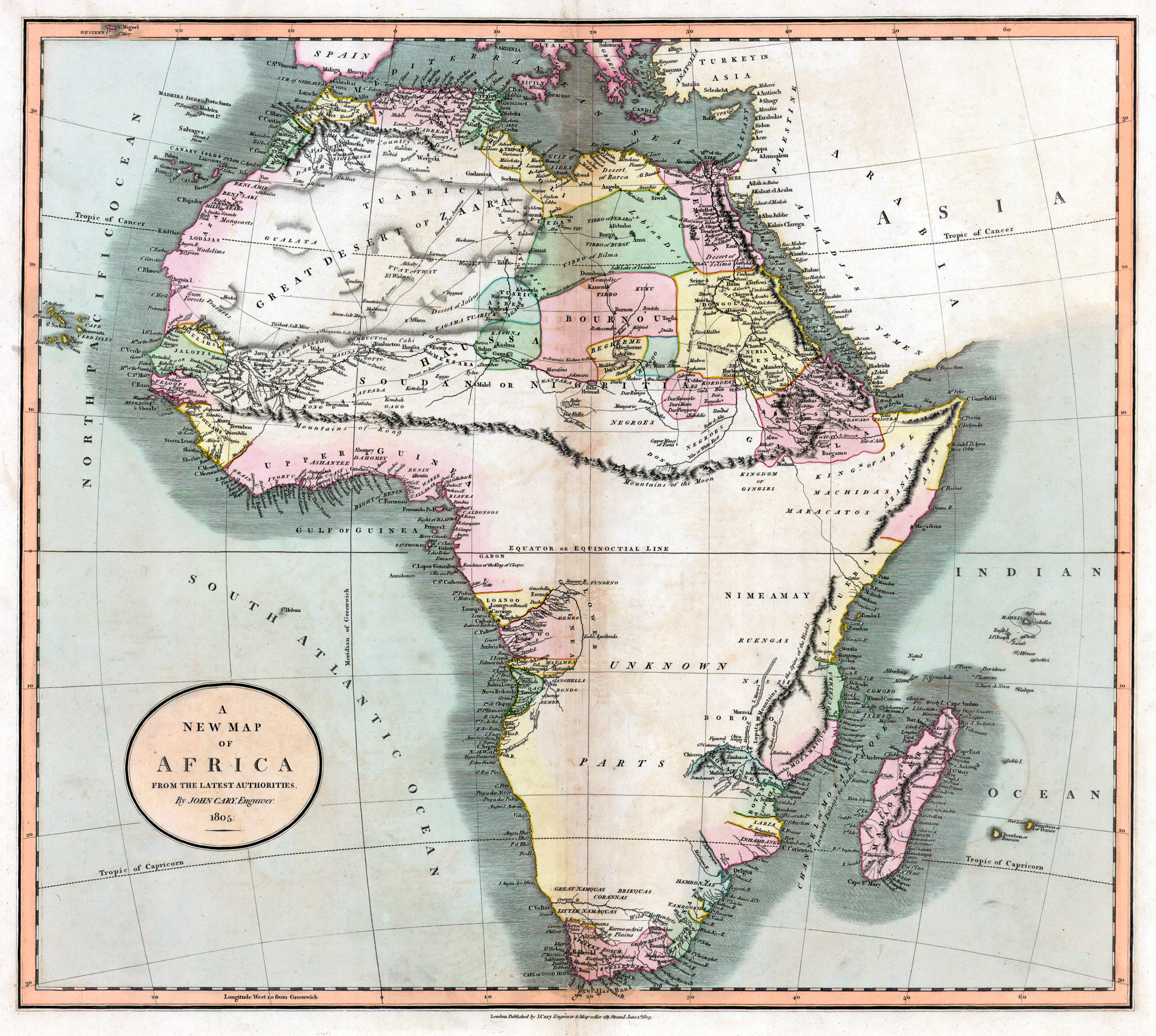 Old map from Africa, made by John Cary in 1805. The map shows the non exisiting "Mountains of Kong".